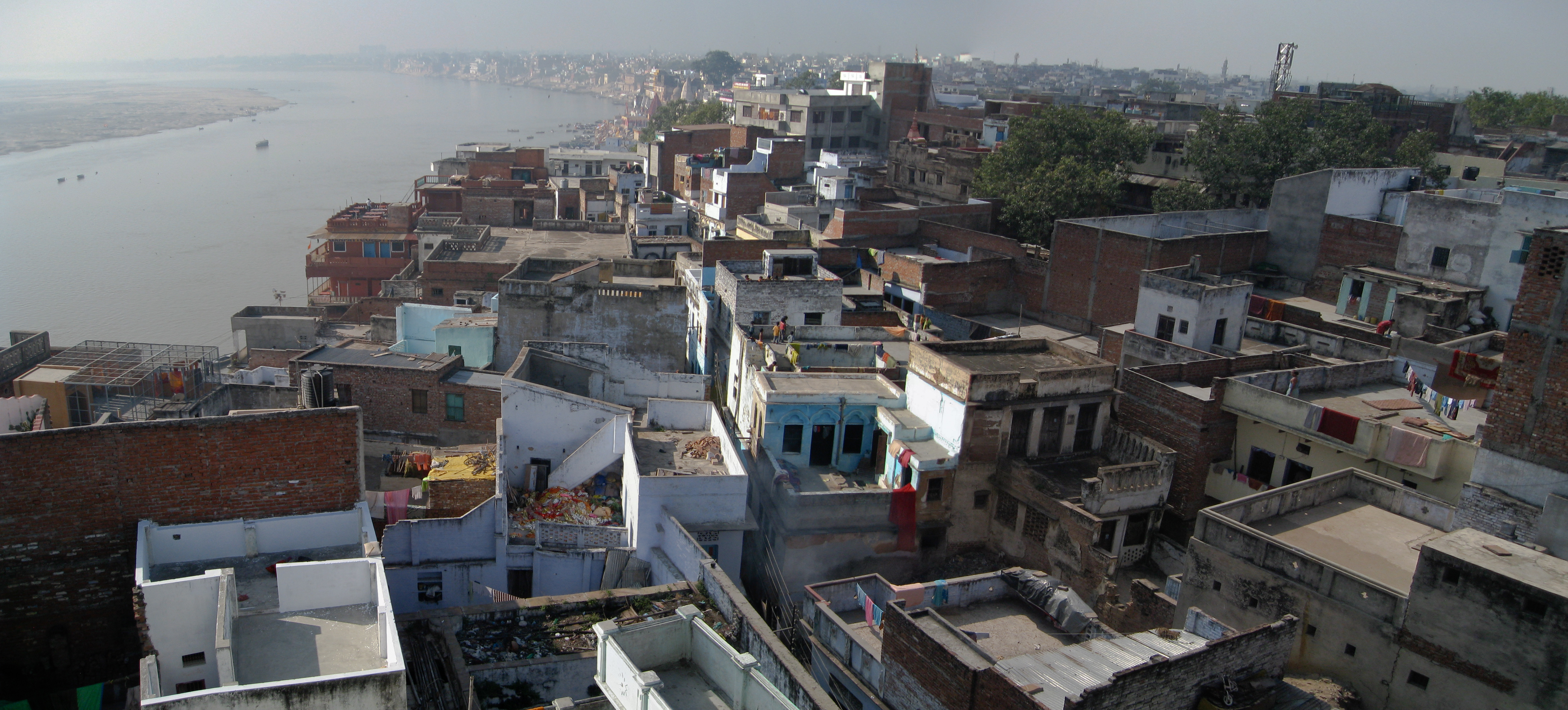 Varanasi - view from hotel